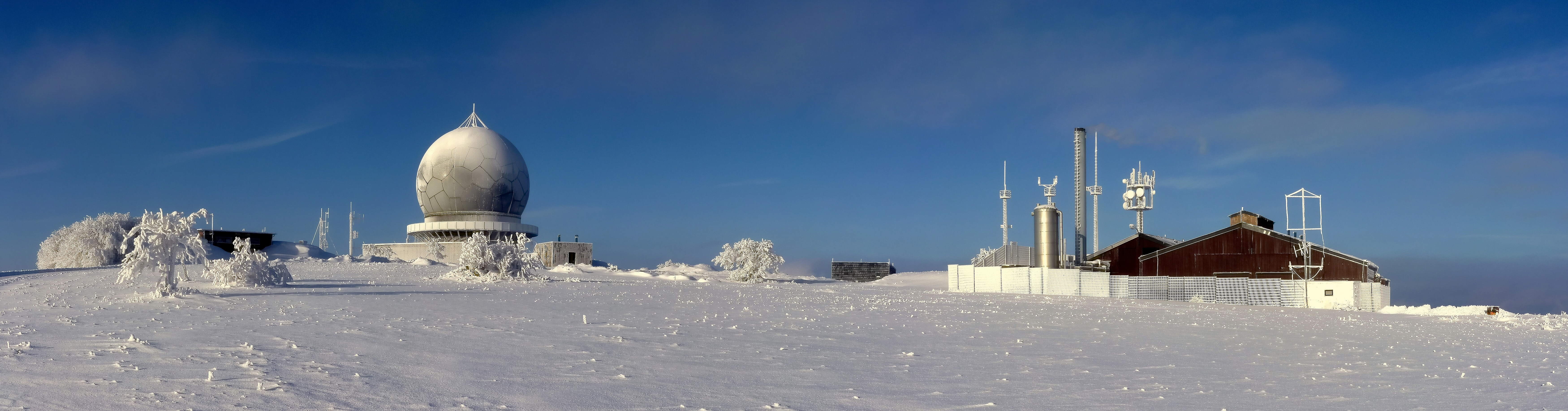 The Wasserkuppe is the highest point in the German Land of Hesse and the mountain range of Rhön. Picture taken at a temperature of -10 °C and under 20 cm of snow. On the left, a disused RADAR station, now a panorama platform.